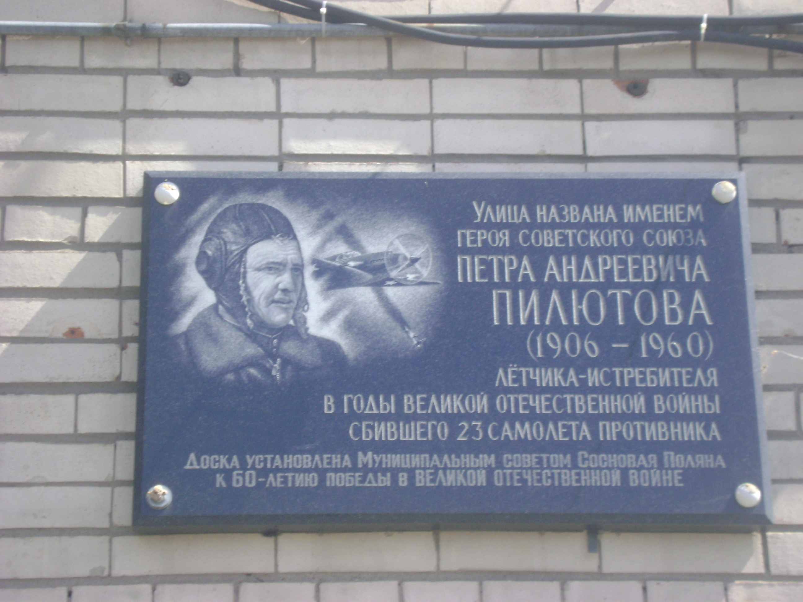 Letchika Pilyutova Street memorial board